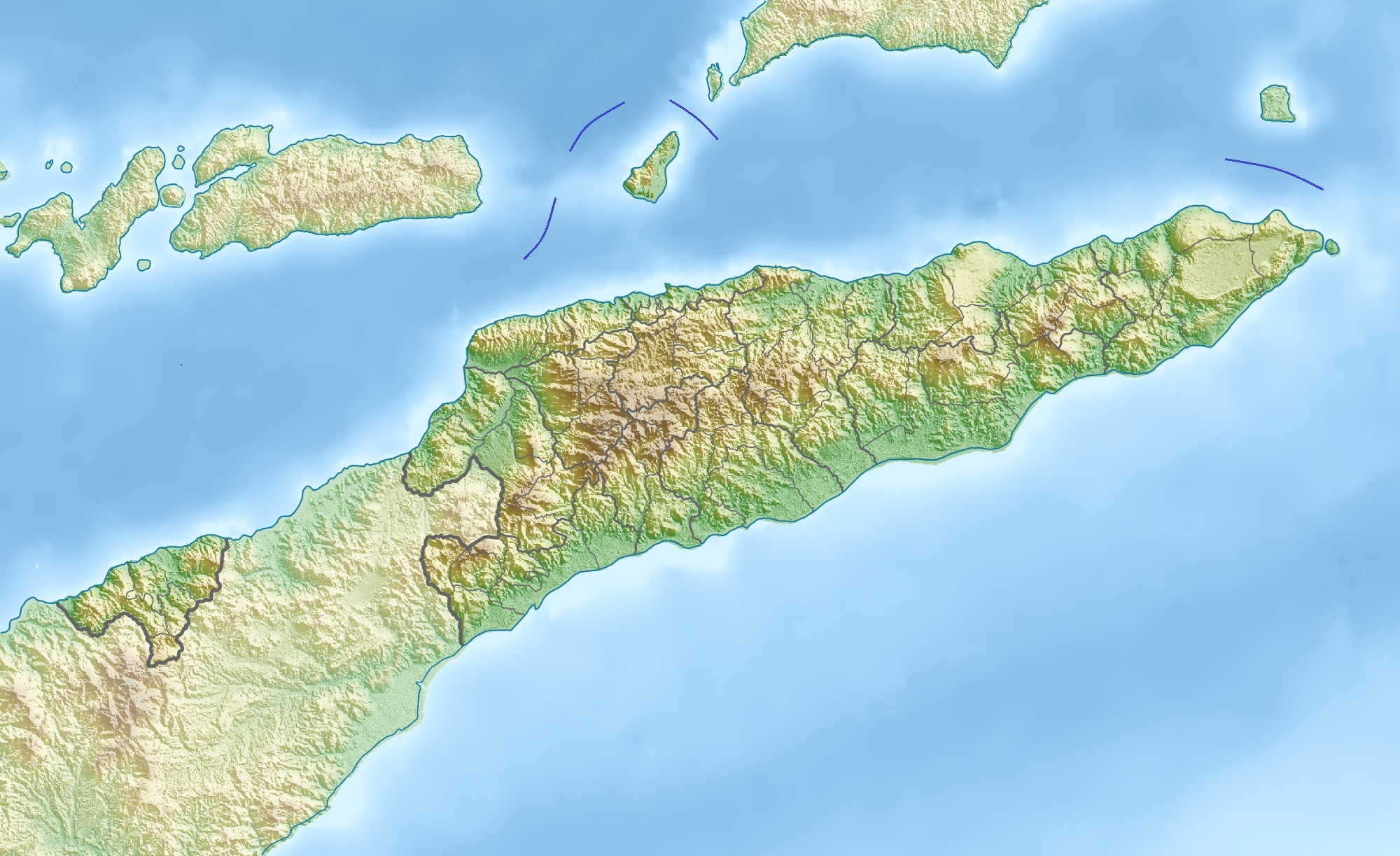 Physical location map of East Timor Equirectangular projection. Geographic limits of the map: N: 7.8° S S: 10.0° S W: 123.9° E E: 127.5° E